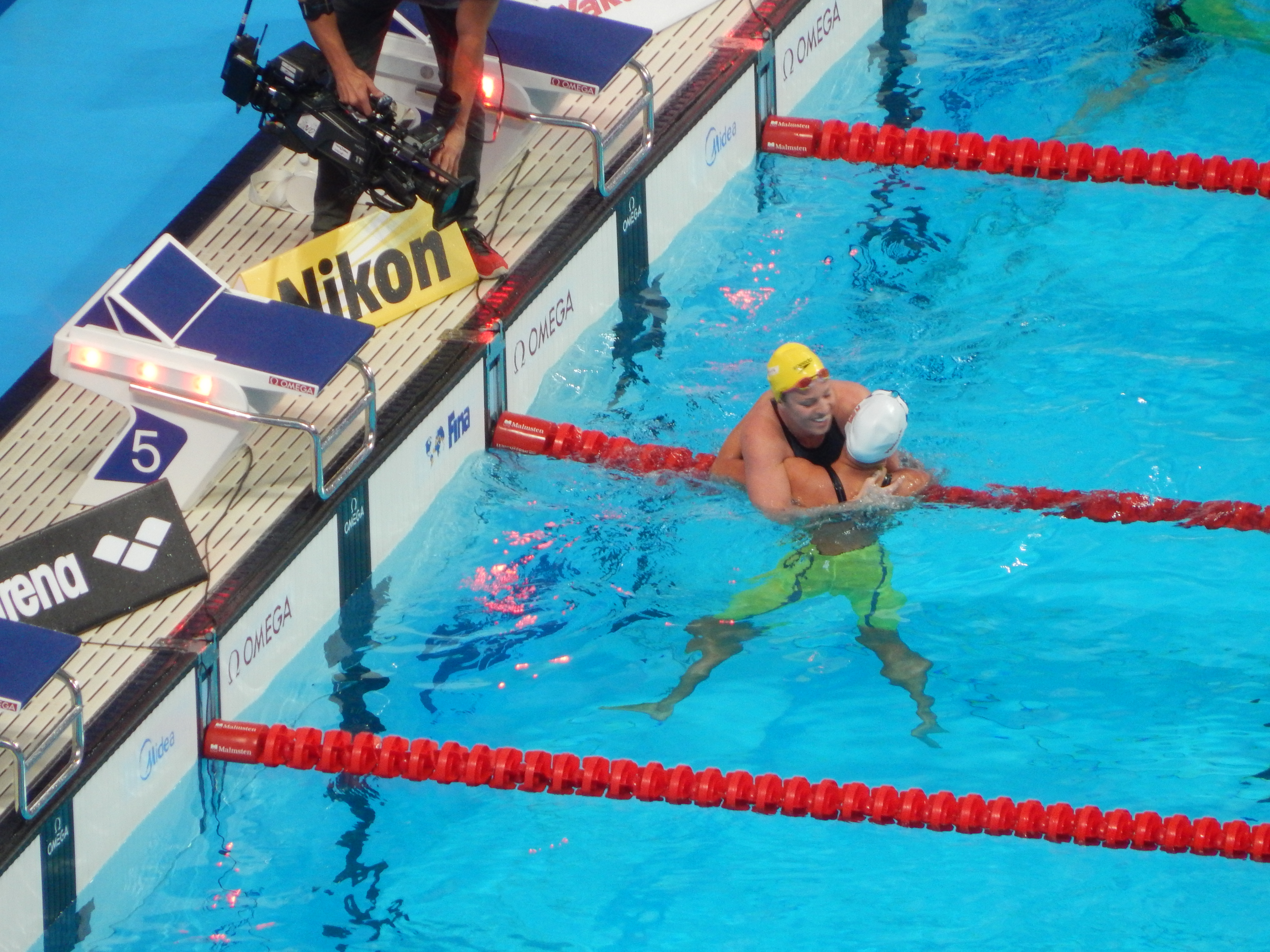 Mie Nielsen and Emily Seebohm after 100m backstroke finish